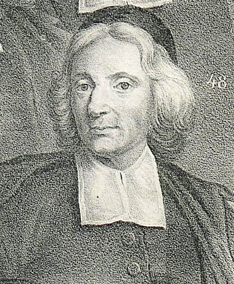 Henric Benzelius (1689-1758), Swedish theologian, professor, bishop in the Diocese of Lund 1740-1747 and archbishop in Uppsala 1747-1758.